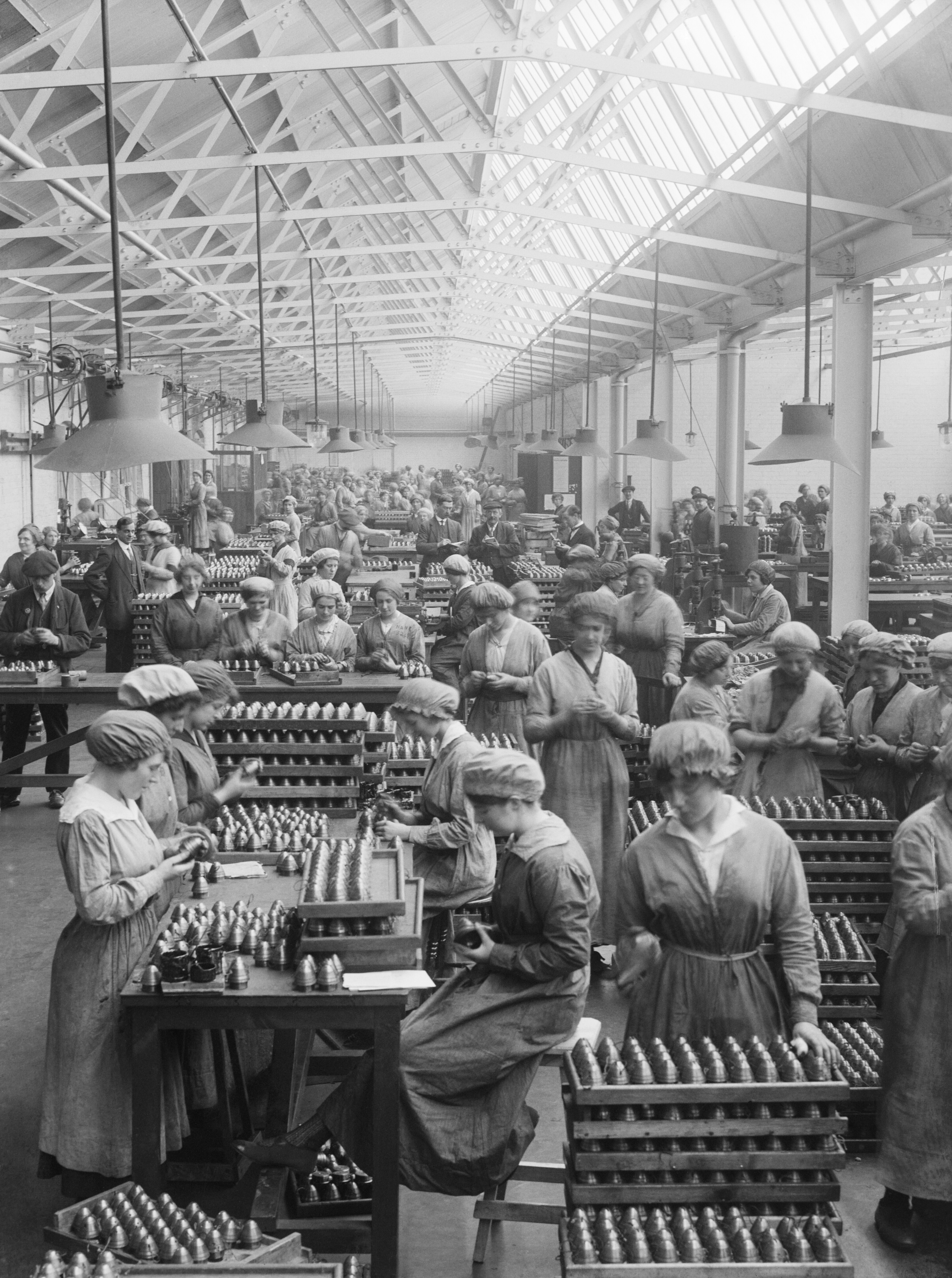 Arms Production in Britain in the First World War Female workers arranging and packing fuze heads in the Coventry Ordinance Works.